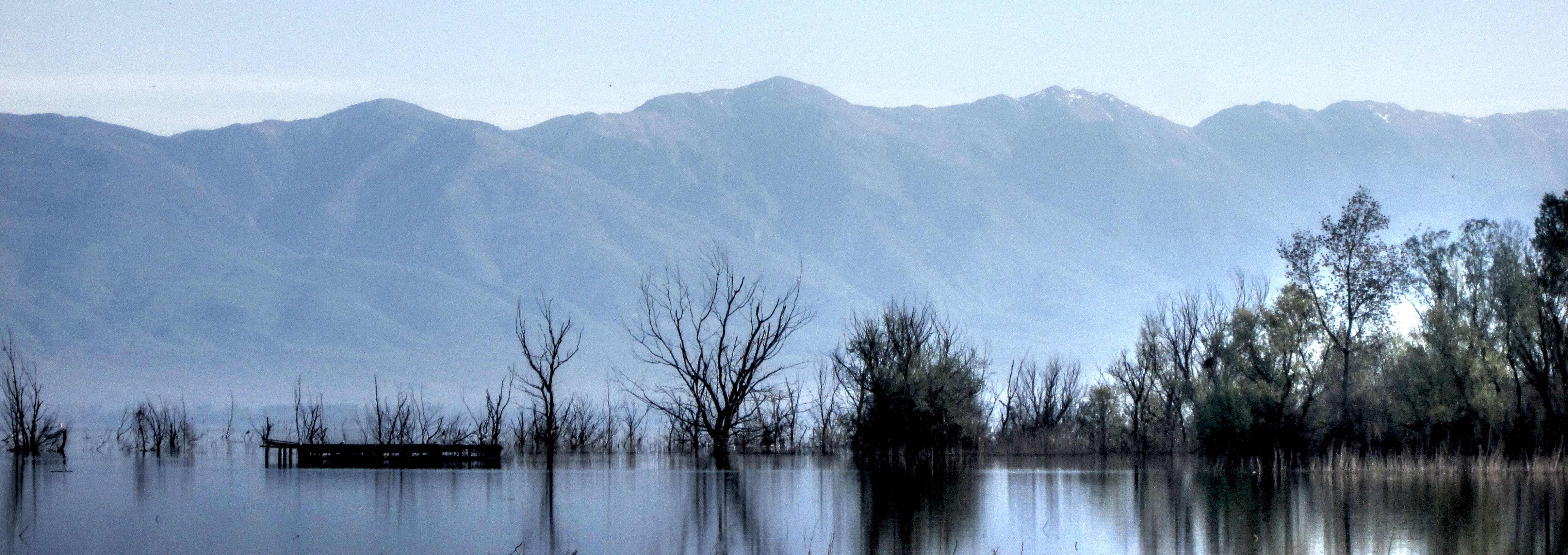 Unique flora despite the Dojran Lake